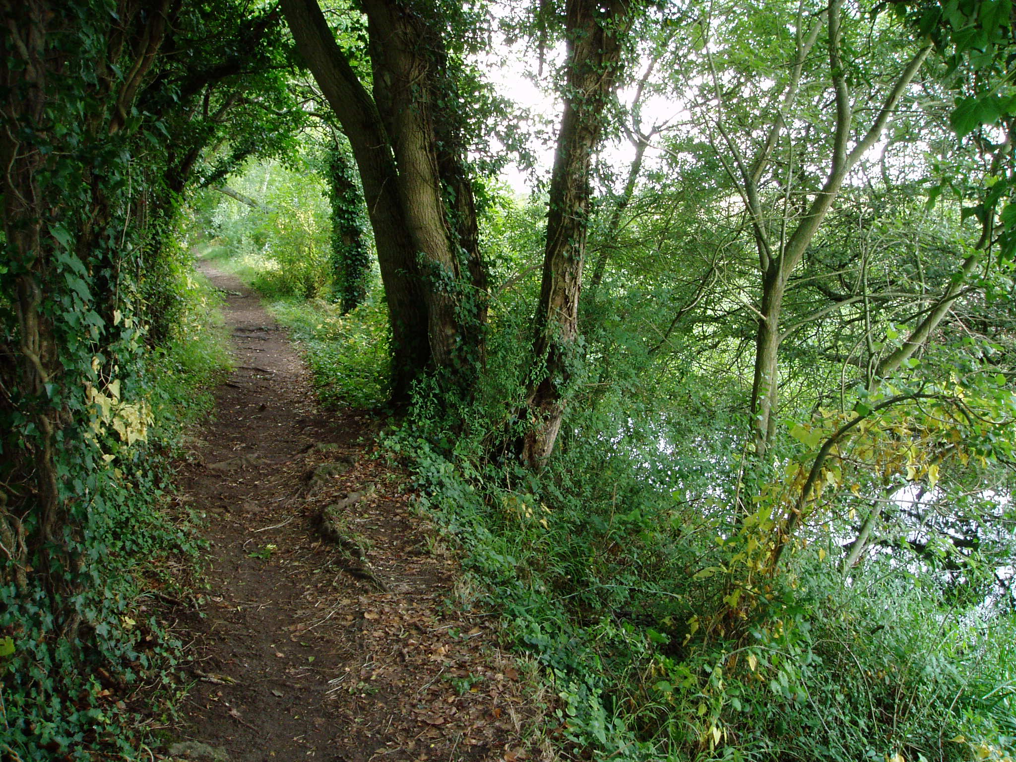 Disused section of the Thames and Severn Canal near South Cerney, Gloucestershire, England. The canal was abandoned in 1927, giving time for trees to grow along the towpath to a considerable height. This is a short (c. 250 metre) watered section; most of the canal to the east of the Sapperton Tunnel is dry.